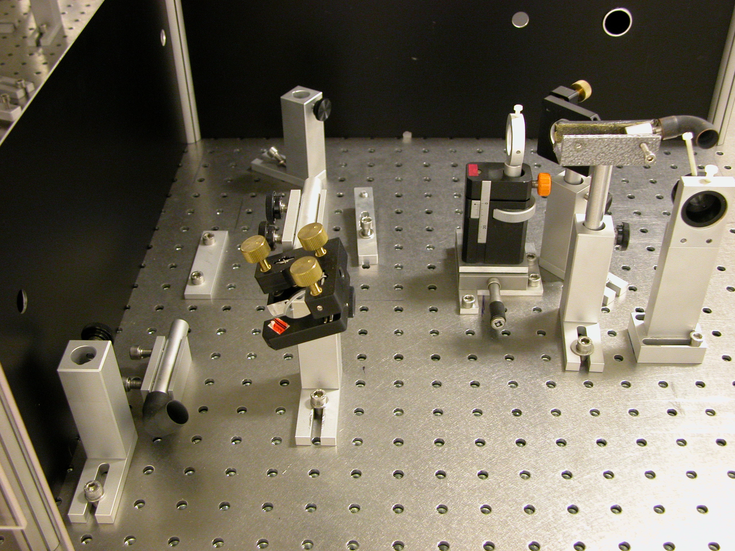 Thin film polarizer used to attenuate a 1053 nm beam